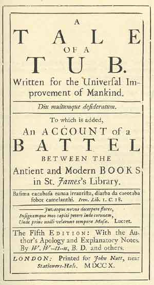 Title page: "Tale of a Tub" (Jonathan Swift). 5th edition.